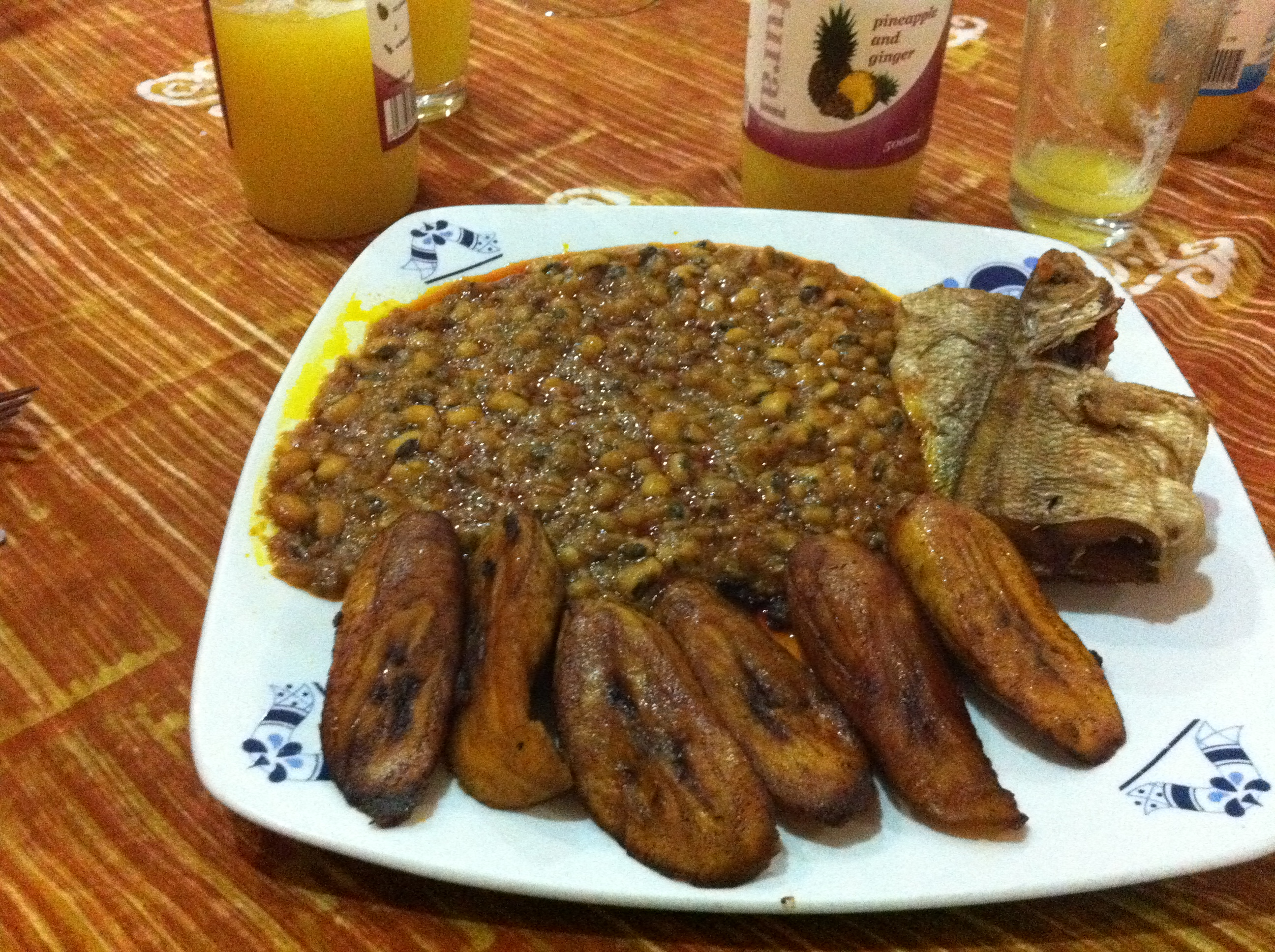 Ghanaian Red-Red, cuisine dish food, in Ghana.